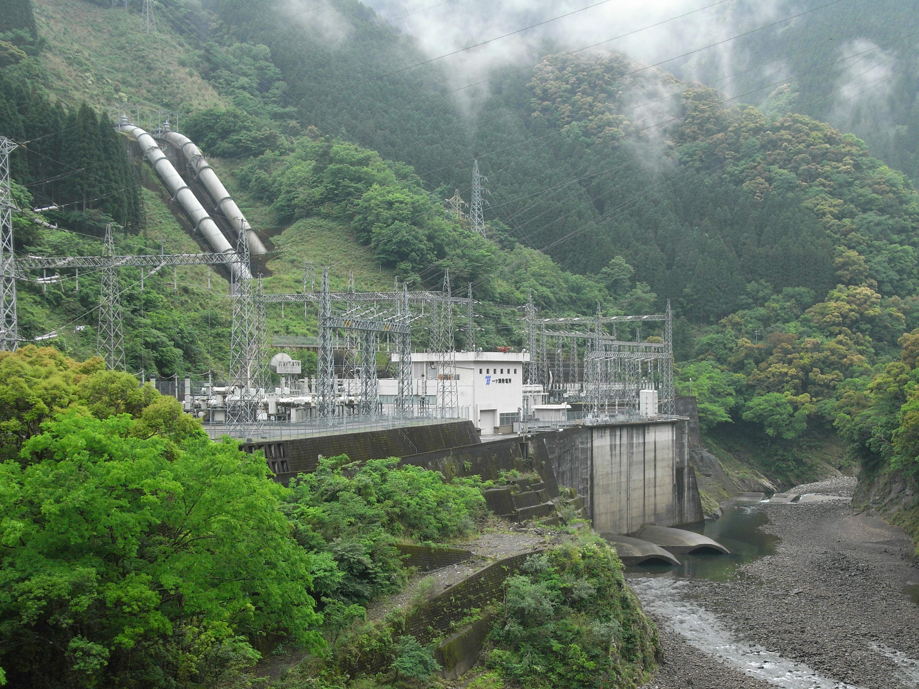 Hydroelectric powerplant Hitotsuse power station(Hitotsusegawa river/Myazaki Pref./Japan)